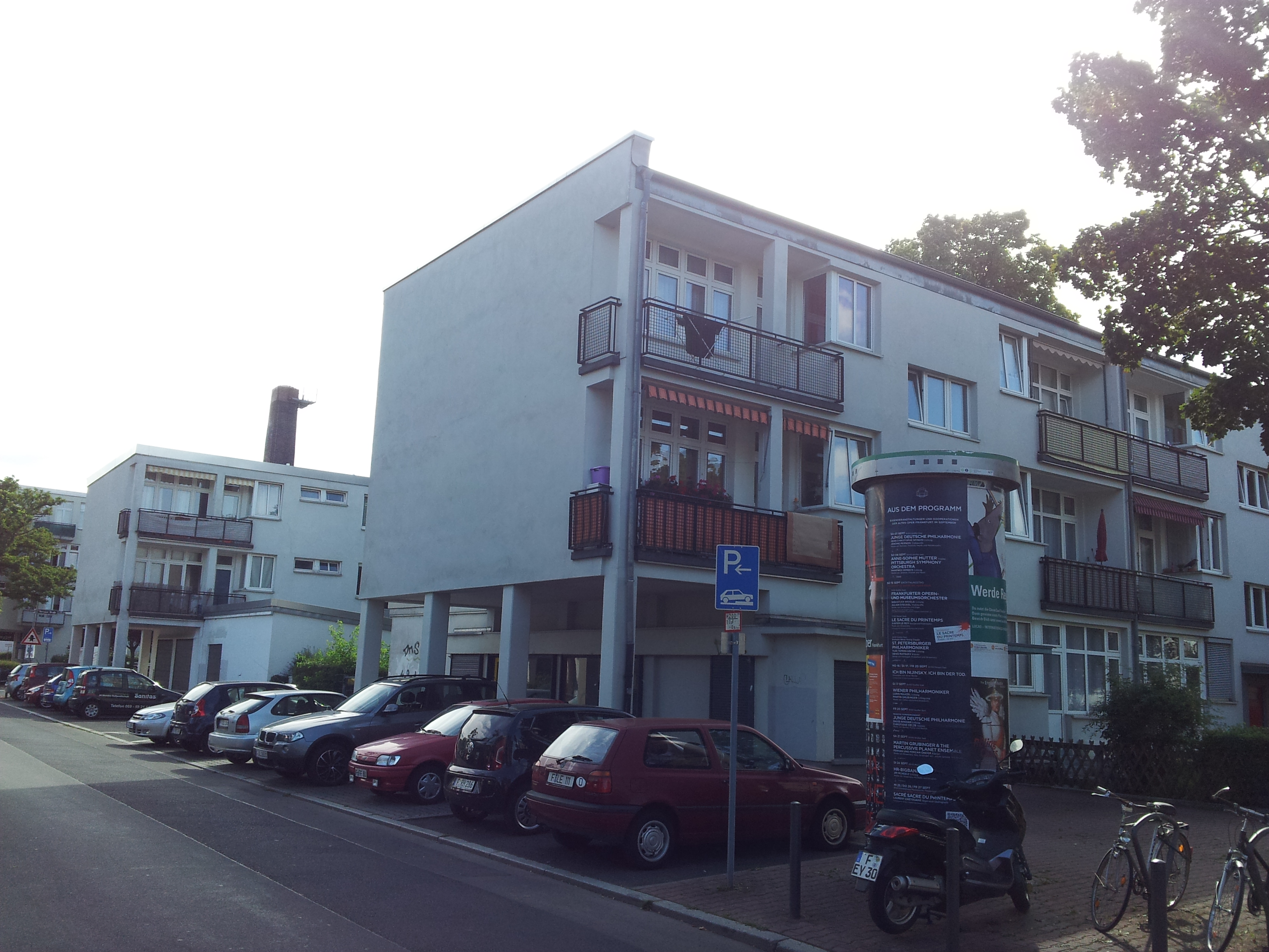 Houses designed 1929 by Mart Stam during the New Frankfurt project.